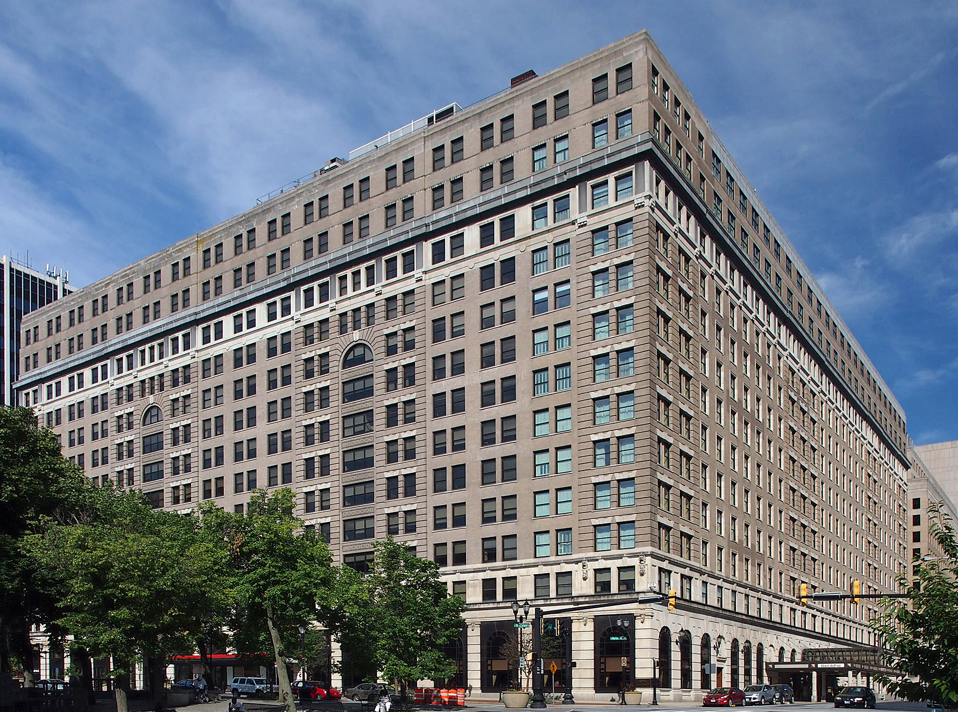 DuPont Building, 1007 N Market St, Wilmington, Delaware, USA. Viewed from the south. A contributing property to the Rodney Square Historic District.